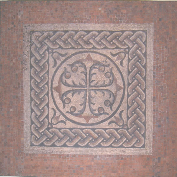 Roman mosaic, found in London, British Museum